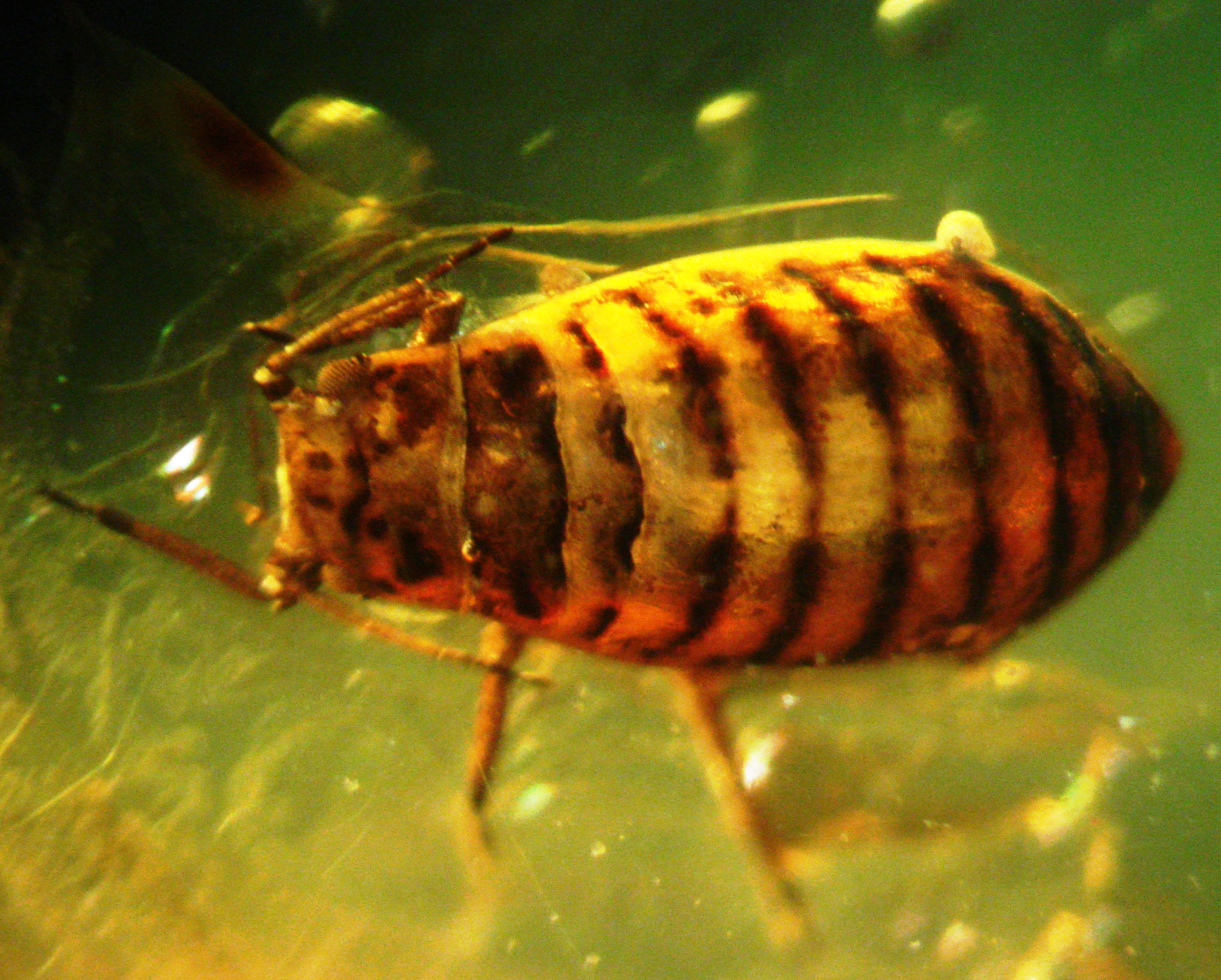 Baltic amber inclusions - 40-50 million years old - Aphid (Hemiptera, Sternorrhyncha, Aphidoidea, Aphid, ...?) - About 3 mm long